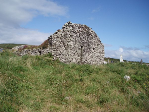 Ruined church and burial ground at Ballywiheen. The ruin of the chapel is surrounded by gravestones. The ground is very uneven. Ballineanig Hill lies behind the chapel.